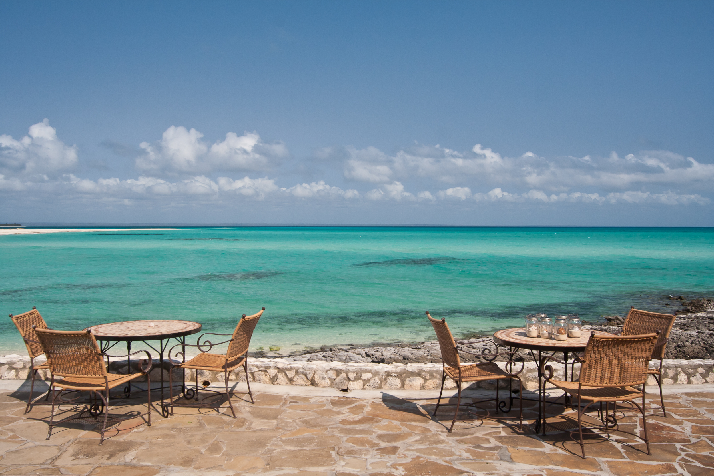 View towards mainland Mozambique from Medjumbe Island's resort pool deck.